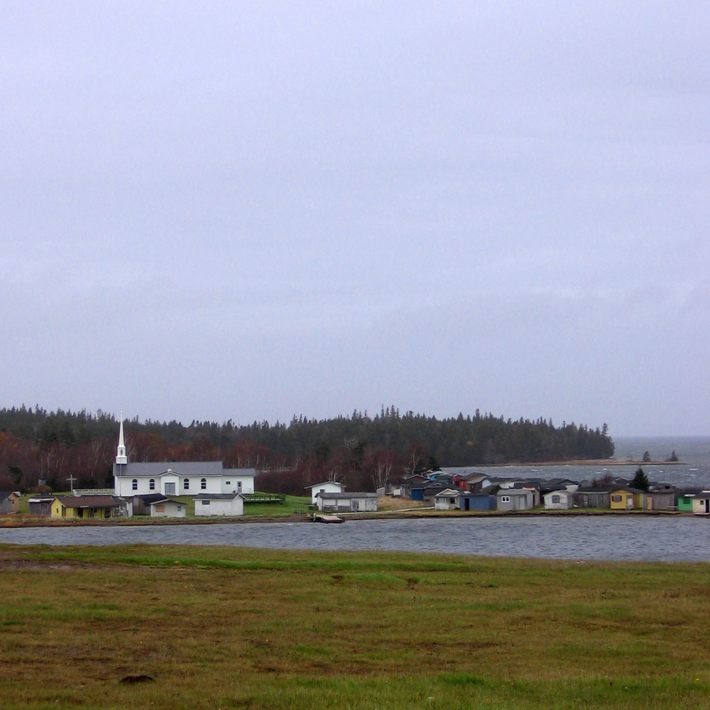 Chapel Island, Potlotek First Nation, Cape Breton, Nova Scotia. The island is a sacred aboriginal site and home of St. Anne Mission, an important pilgrimage site for the Mí'kmaq - and a place of national historic significance.